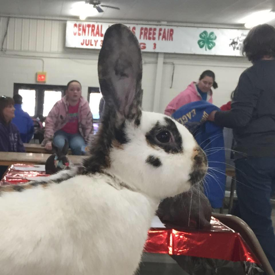 Picture of a Rhinelander named Sunkiss taken by Christa Deines, Sunnyside Farm.